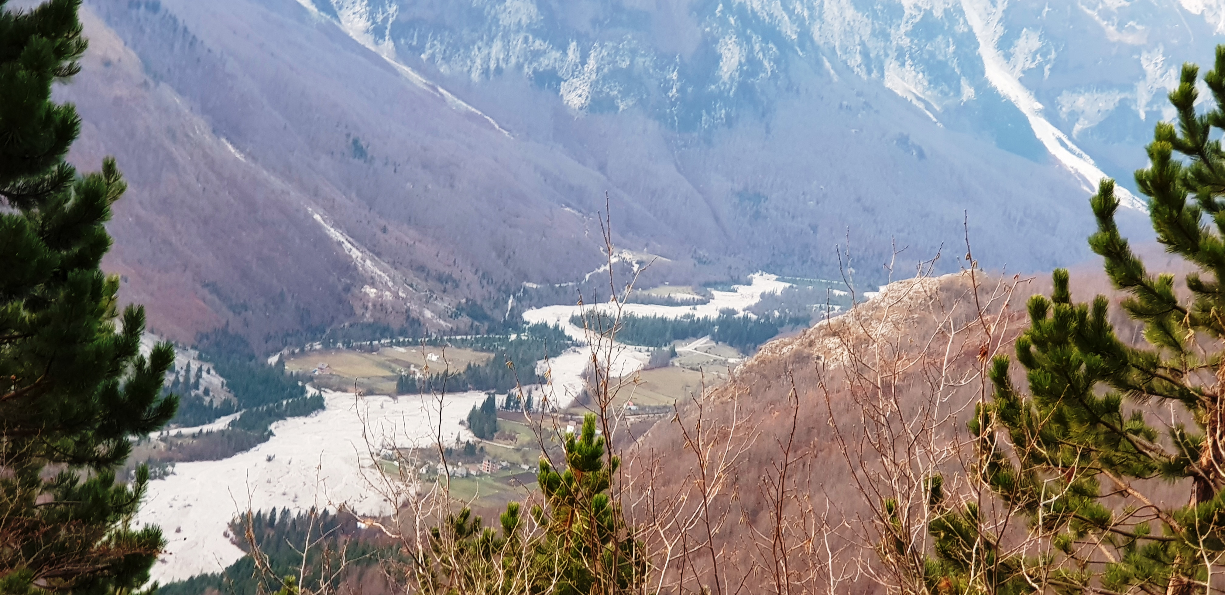 Valley of Valbona River, Albanian Alps in Albania